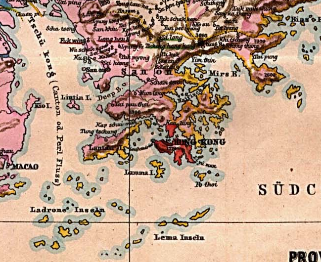 A map on San-on County (新安縣), Kowloon and Hong Kong (modified from a map of Provinz Kwang Tung (Canton) in 1878 by Von J. Nacken.)